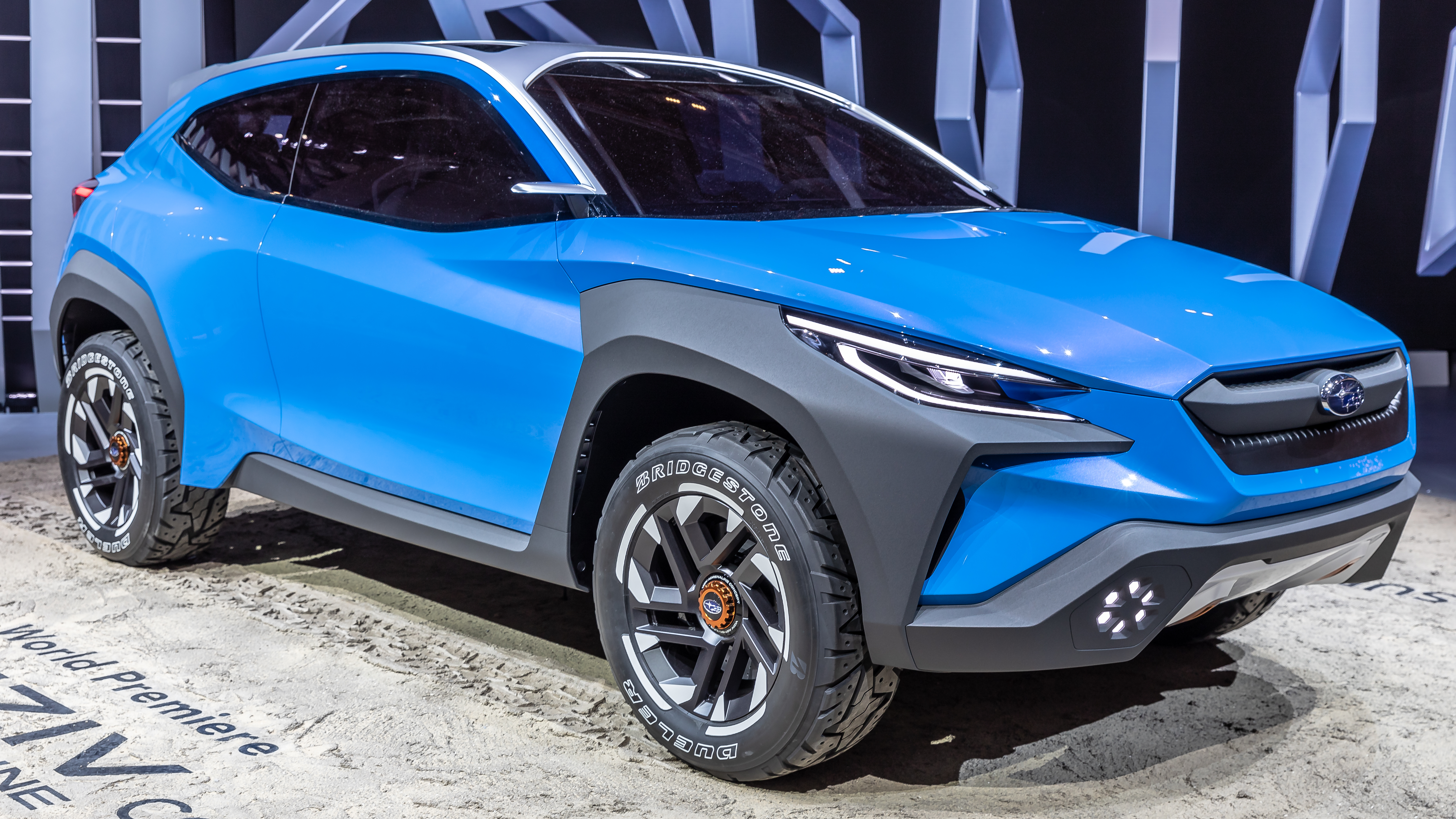 Subaru Viziv Adrenaline Concept at Geneva International Motor Show 2019, Le Grand-Saconnex